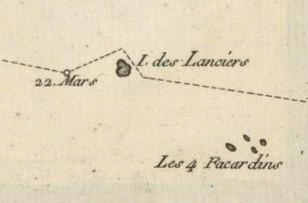 Détail de la carte des Tuamotu établie par Louis Antoine de Bougainville en 1768 (Première division, archipel dangereux, terres basses et noyées). Apparaissent Les Quatre Facardins (actuel Vahitahi) et l'île des Lanciers (actuel Akiaki)